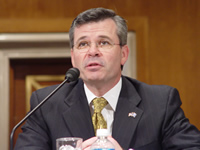 Ernie Fletcher.